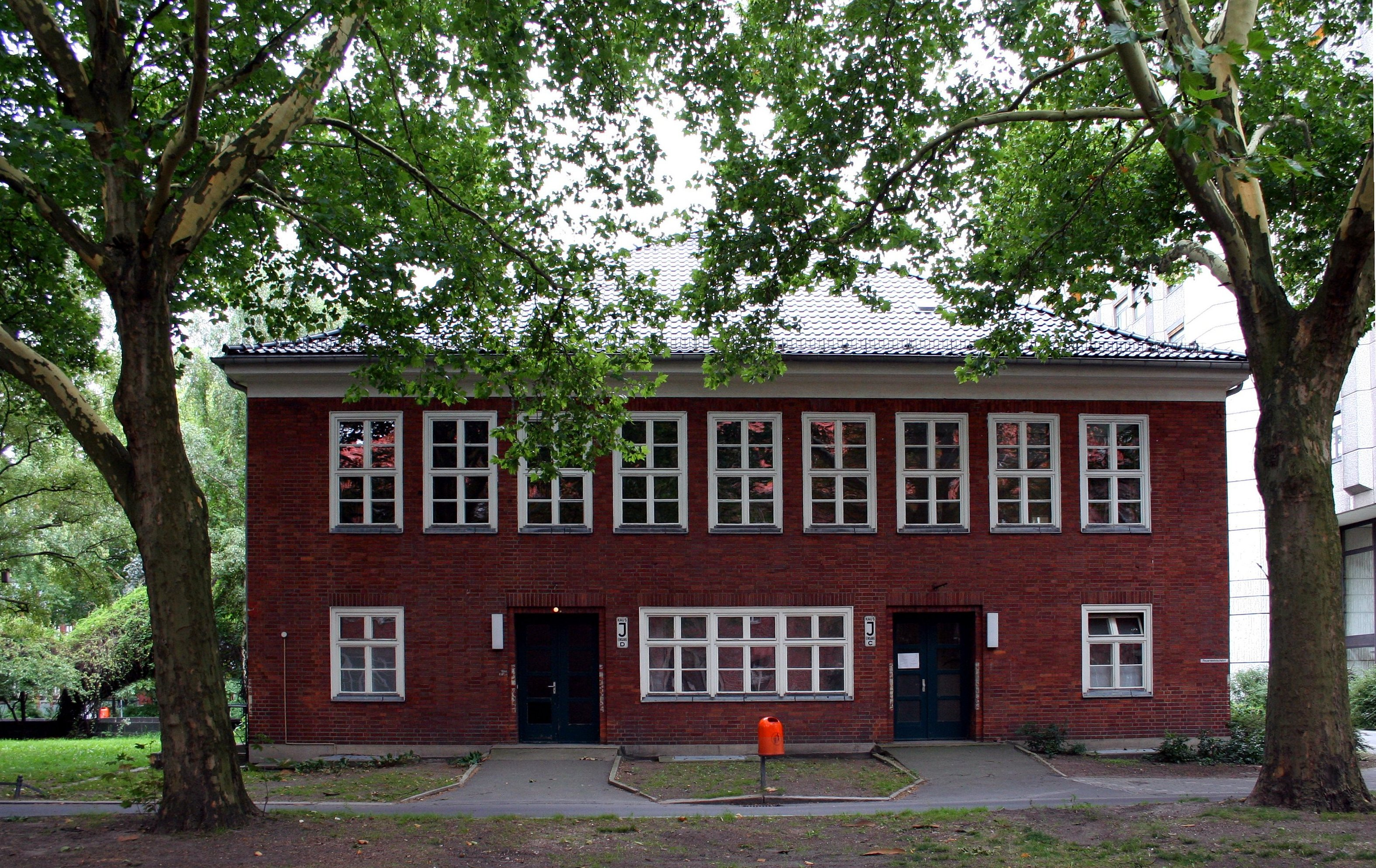 Auditorium of the former hospital in Berlin-Moabit known as "Städtisches Krankenhaus Moabit".